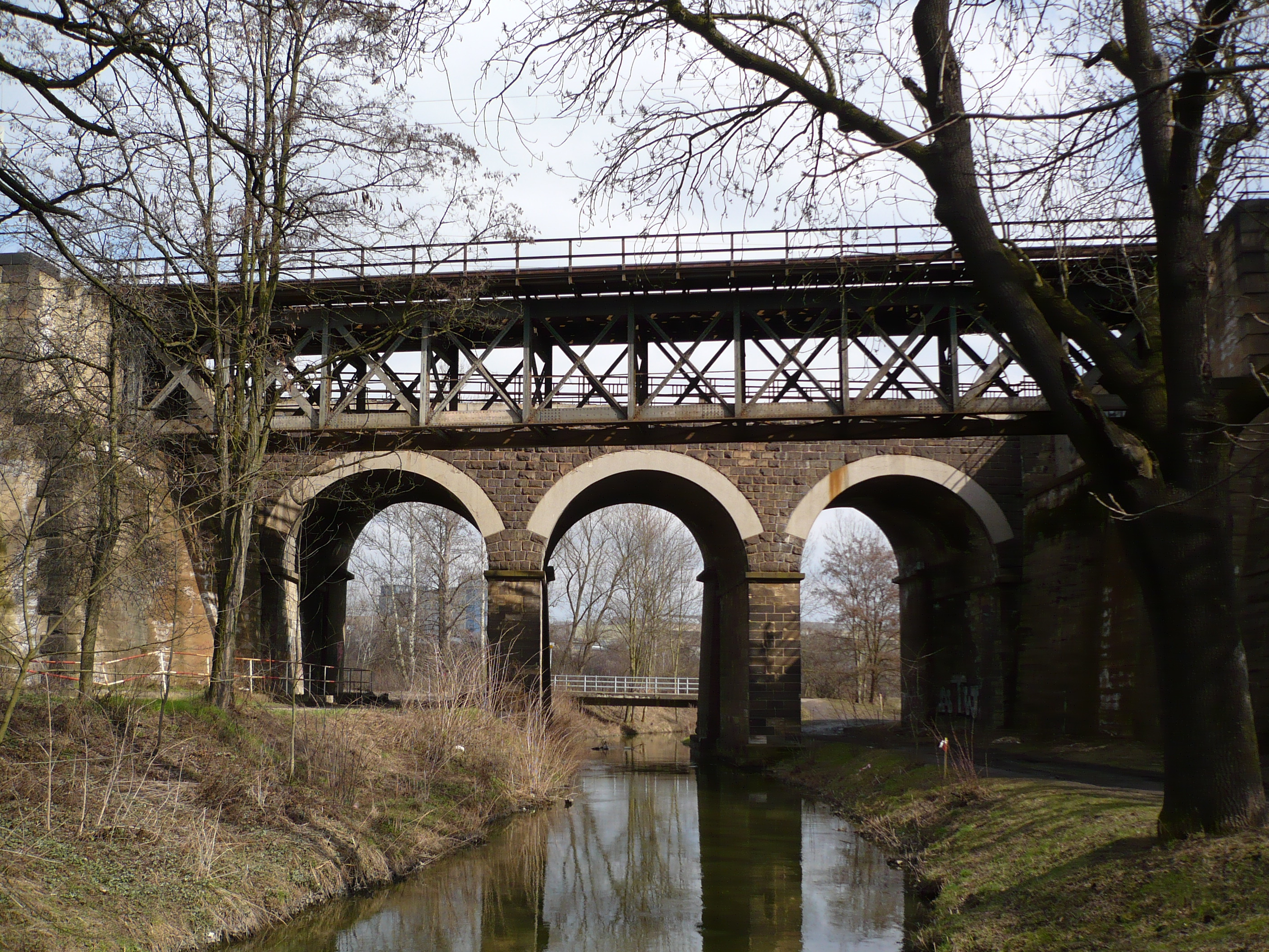 Three railway bridges over Rokytka